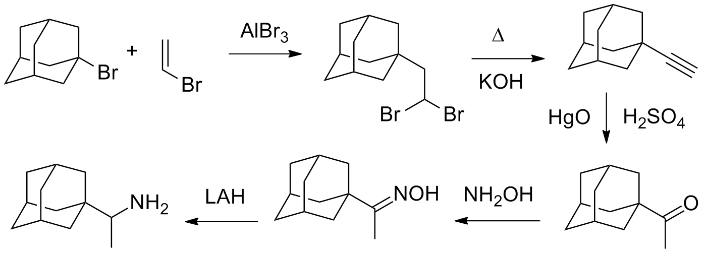 P. E. Aldrich, E. C. Hermann, W. E. Meier, M. Paulshock, W. W. Prichard, J. A. Snyder and J. C. Watts, J. Med. Chem., 14, 535 (1971); H. Stetter and P. Goebel, Chem. Ber., 95, 1039 (1962).